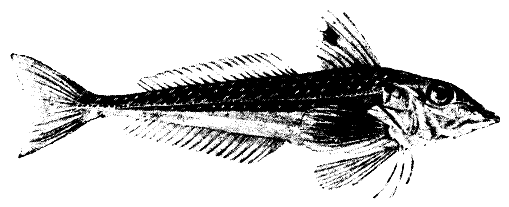 Trigla gurnardu Grey gurnard (Eutrigla gurnardus)